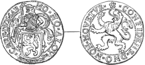 Image from Rivista italiana di numismatica 1891 (p. 417) Thaler of Sabbioneta (1637/8) MO • NO • ALOY • – • CARL (sic) • DVX • SAB Warrior bust over coat of arms with lion rampant • CONFIDENS • DNO • NON • MOVETVR coat of arms